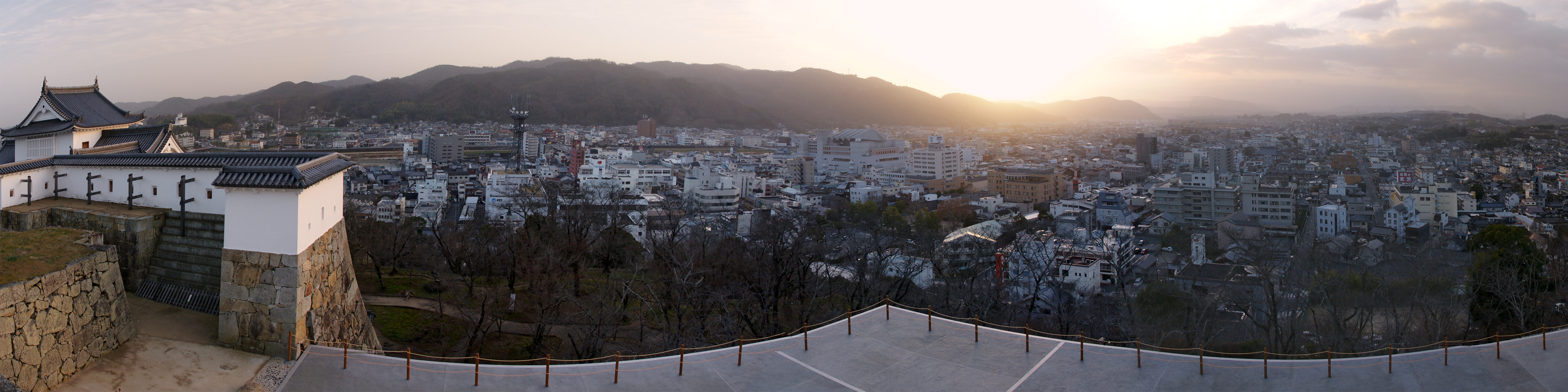 Tsuyama Castle in Tsuyama, Okayama prefecture, Japan.